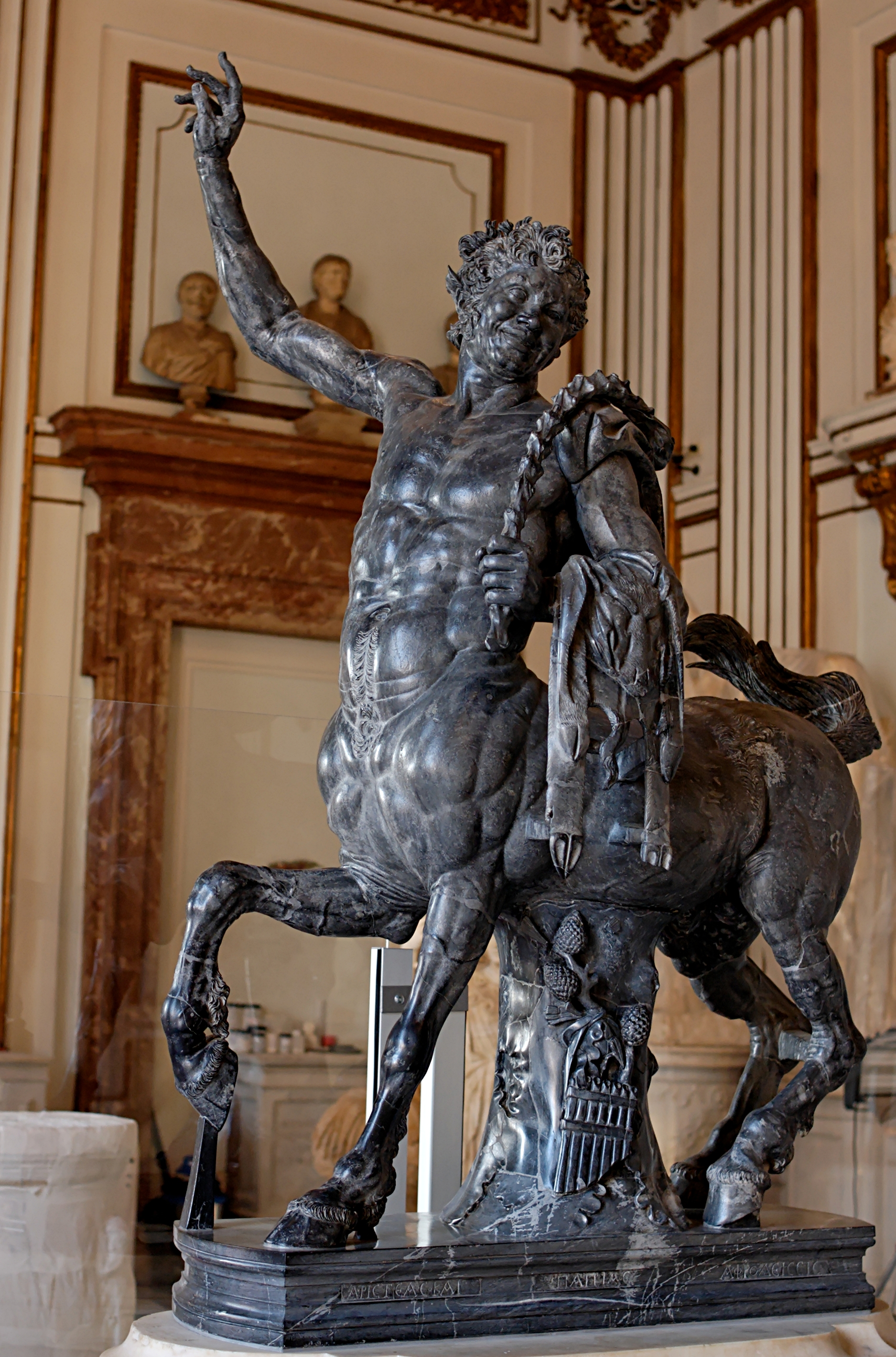 So-called “Young Centaur”: young centaur mocking Love's wounds (Eros missing). Grey-black marble, Roman copy after an Hellenistic original.